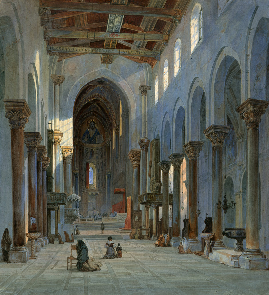 Interior of Cefalù Cathedral, Sicily. Watercolour painting, 41 x 38 cm. Signed and dated „C. Werner f. 1836“.